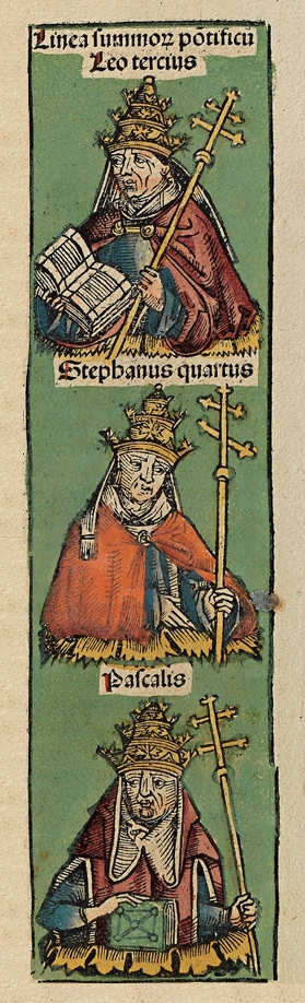 Woodcut from the Nuremberg Chronicle